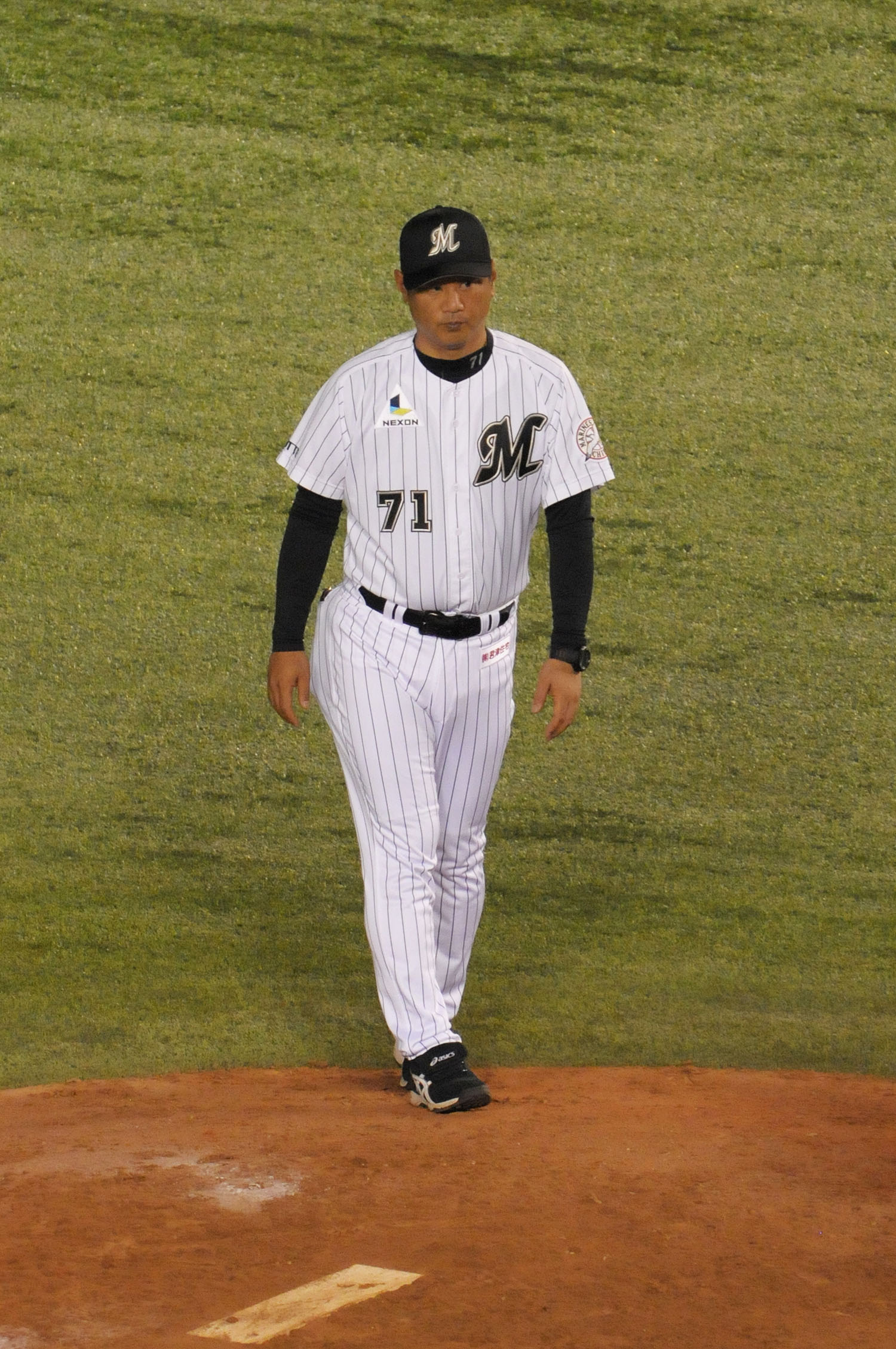 Toshihide Narimoto, coach of the Chiba Lotte Marines, at Chiba Marine Stadium.